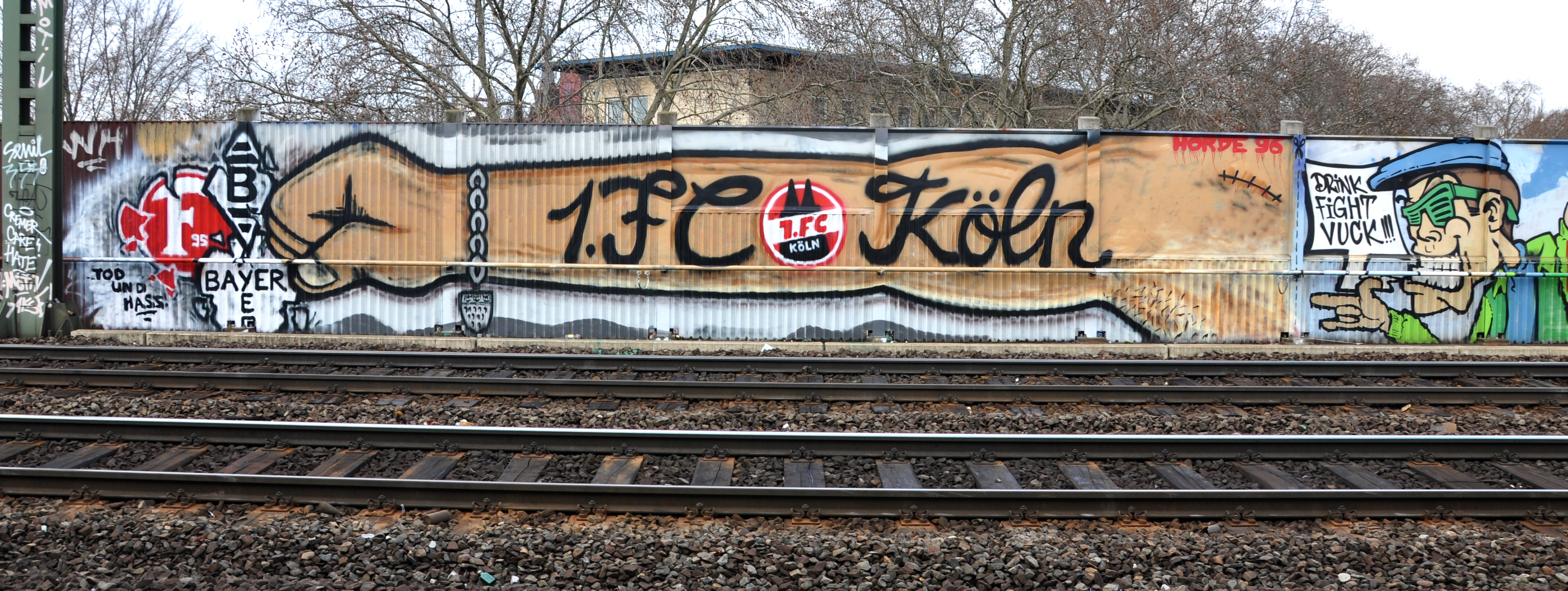 Graffiti at Ehrenfeld station, Cologne